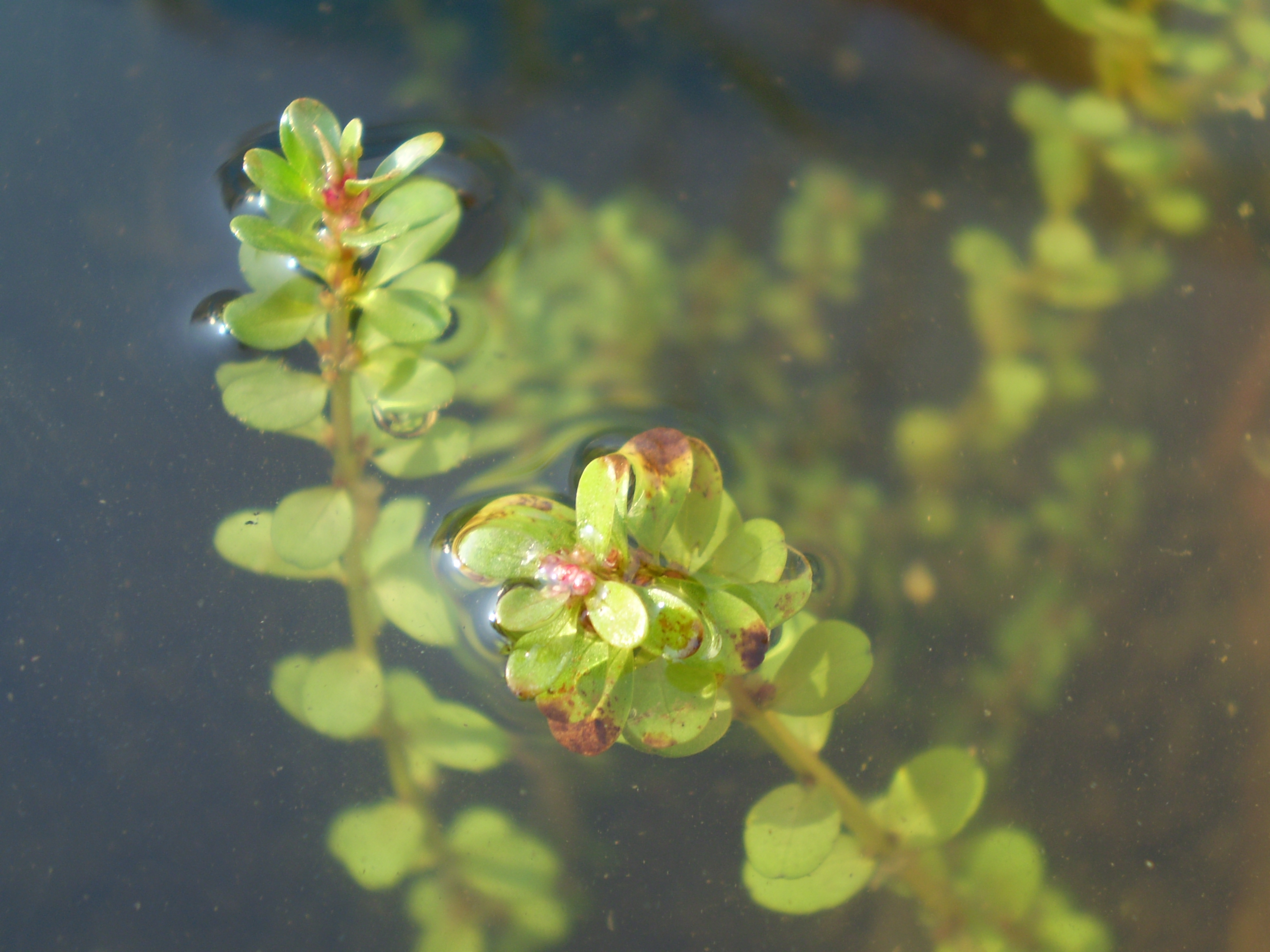 Rotala indica (Willd.) Koehne var. uliginosa